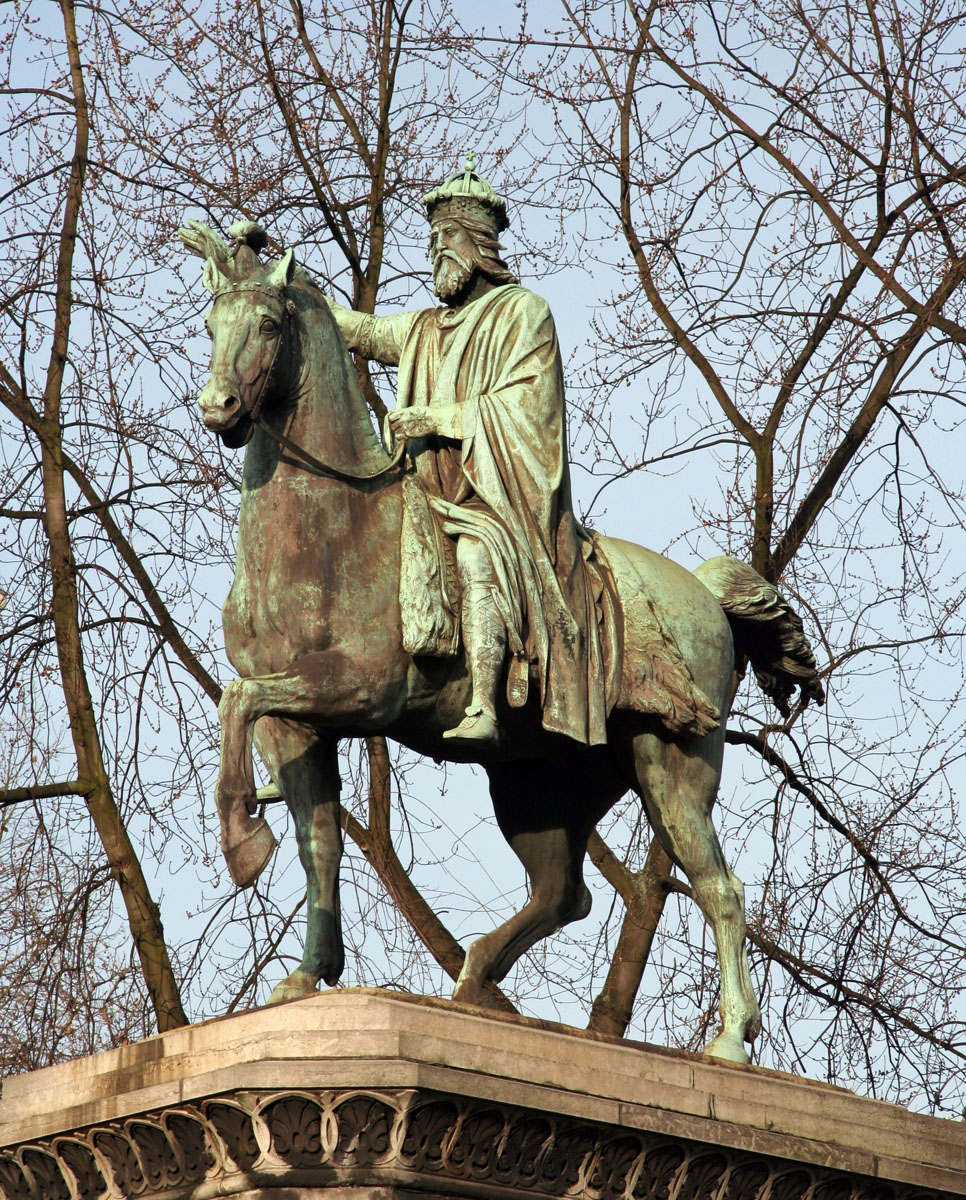 Statue of Charlemagne